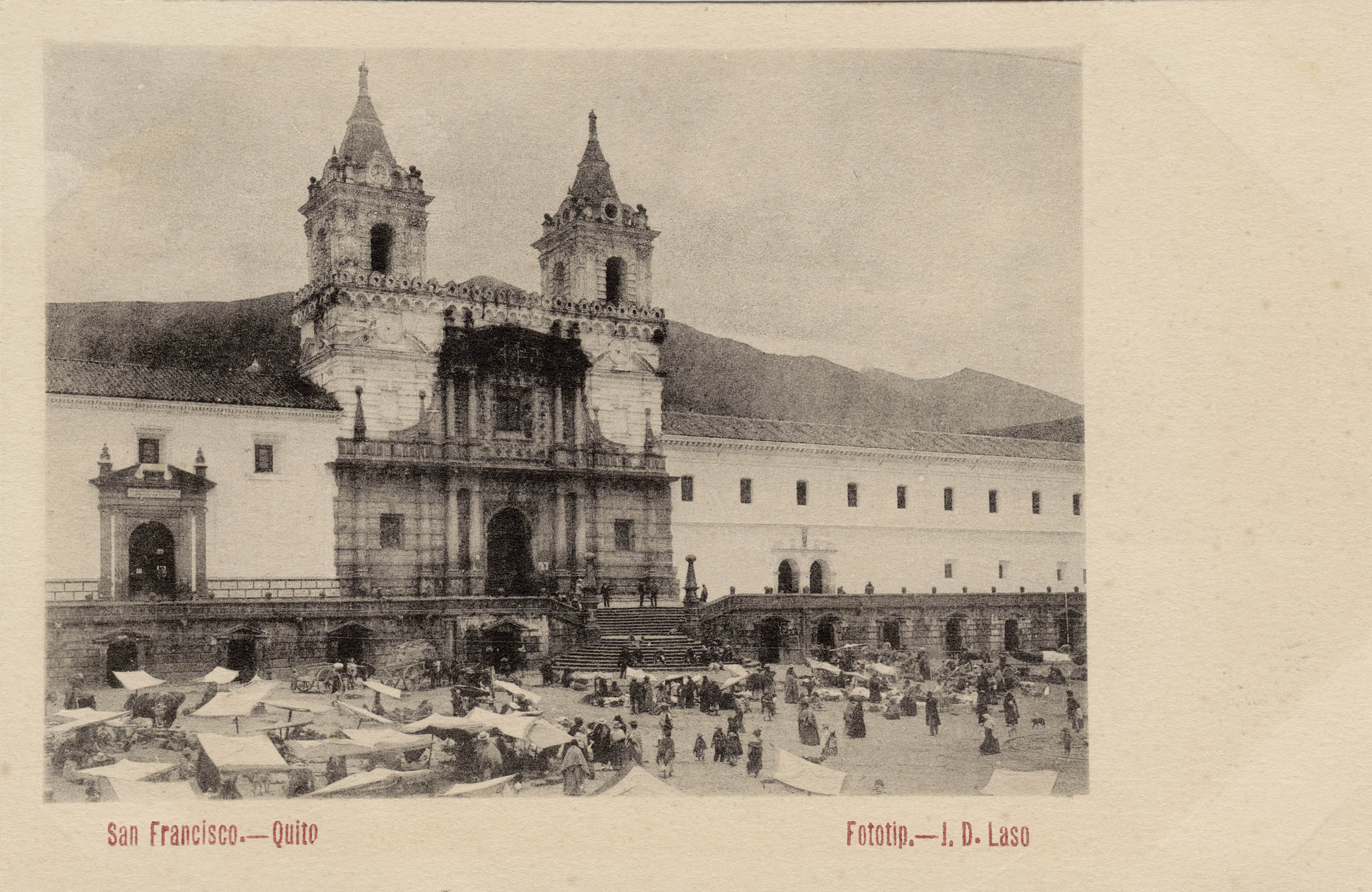 FOTOGRAFÍAS DE JOSE DOMINGO LASO. BORRON DEL INDÍGENA EN LOS ALBUMES SOBRE LA CIUDAD PUBLICADOS ENTRE 1911 Y 1924. INVESTIGACIÓN Y EXHIBICIÓN "LA HUELLA INVERTIDA". Investigador: Francois Coco Laso